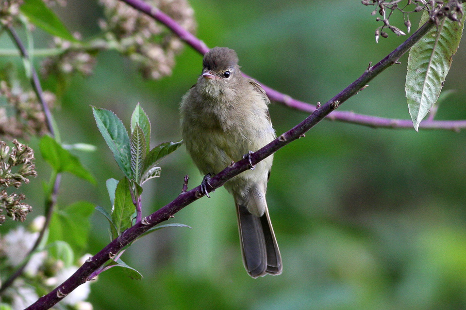 Calilegua National Park,Jujuy